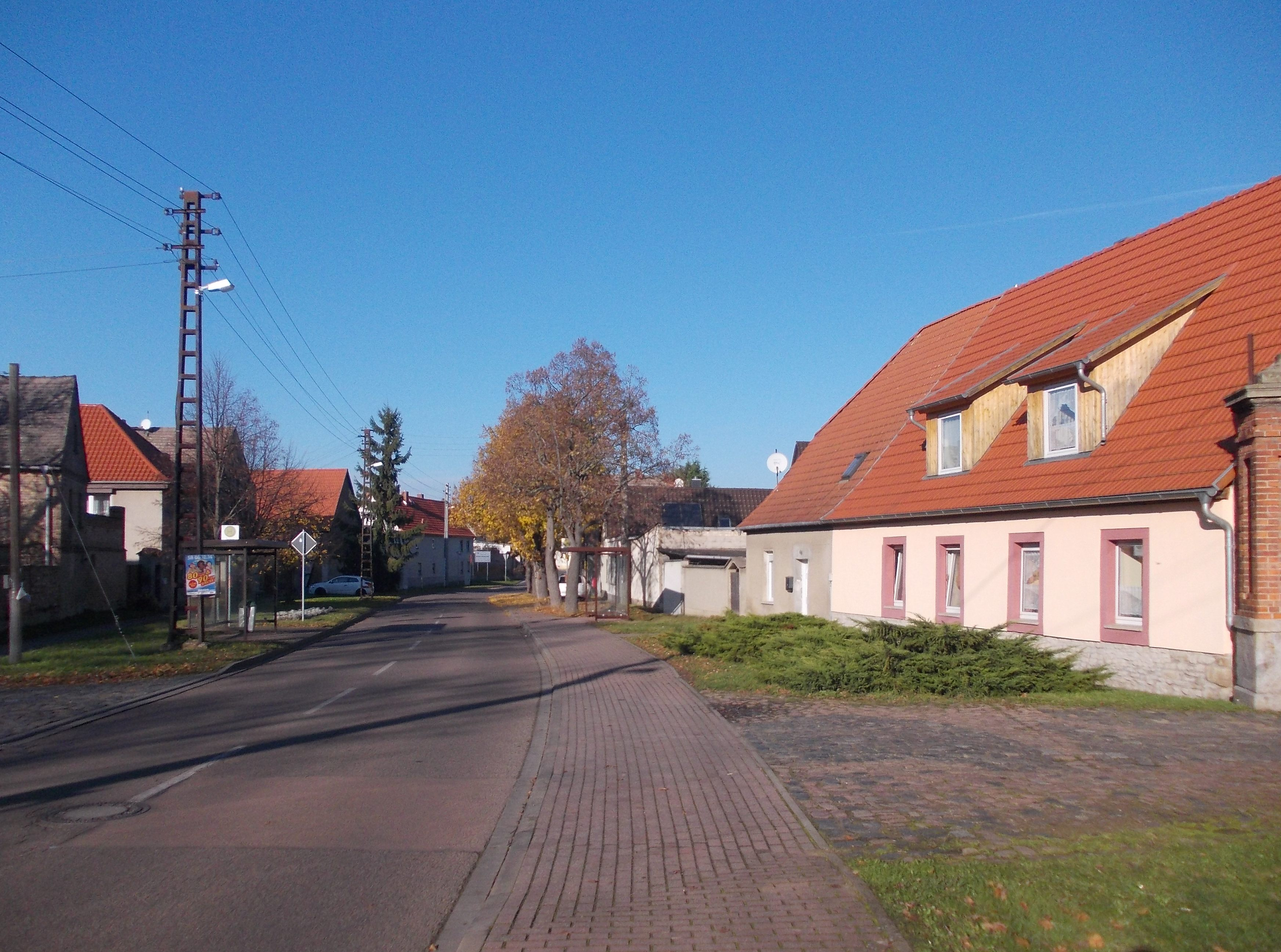 Geusaer Strasse in Geusa (Merseburg, district: Saalekreis, Saxony-Anhalt)